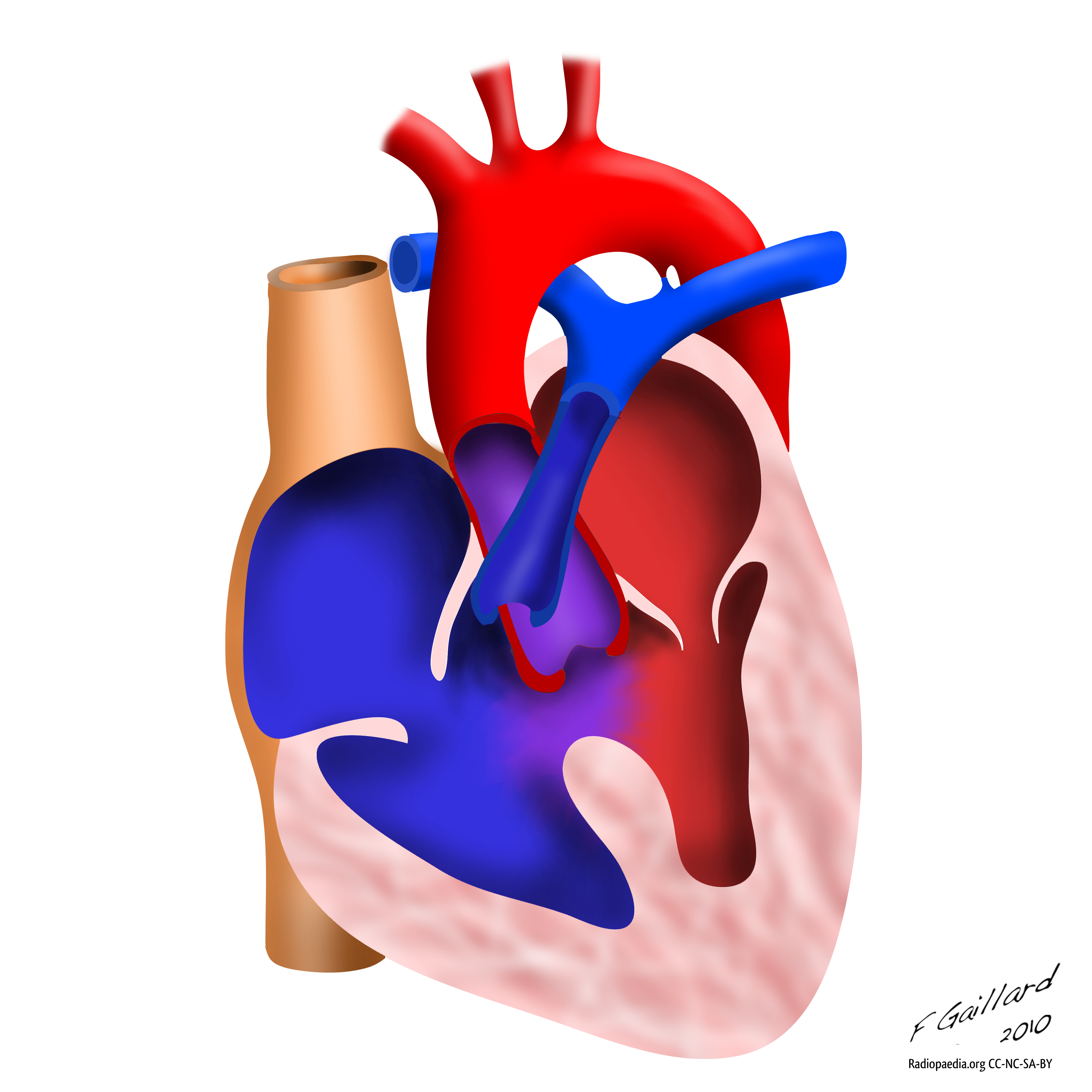 Diagram depicting features of Tetralogy of Fallot consisting of: ventricular septal defect (VSD) right ventricular outlfow tract obstruction due to: over riding aorta right ventricular hypertrophy